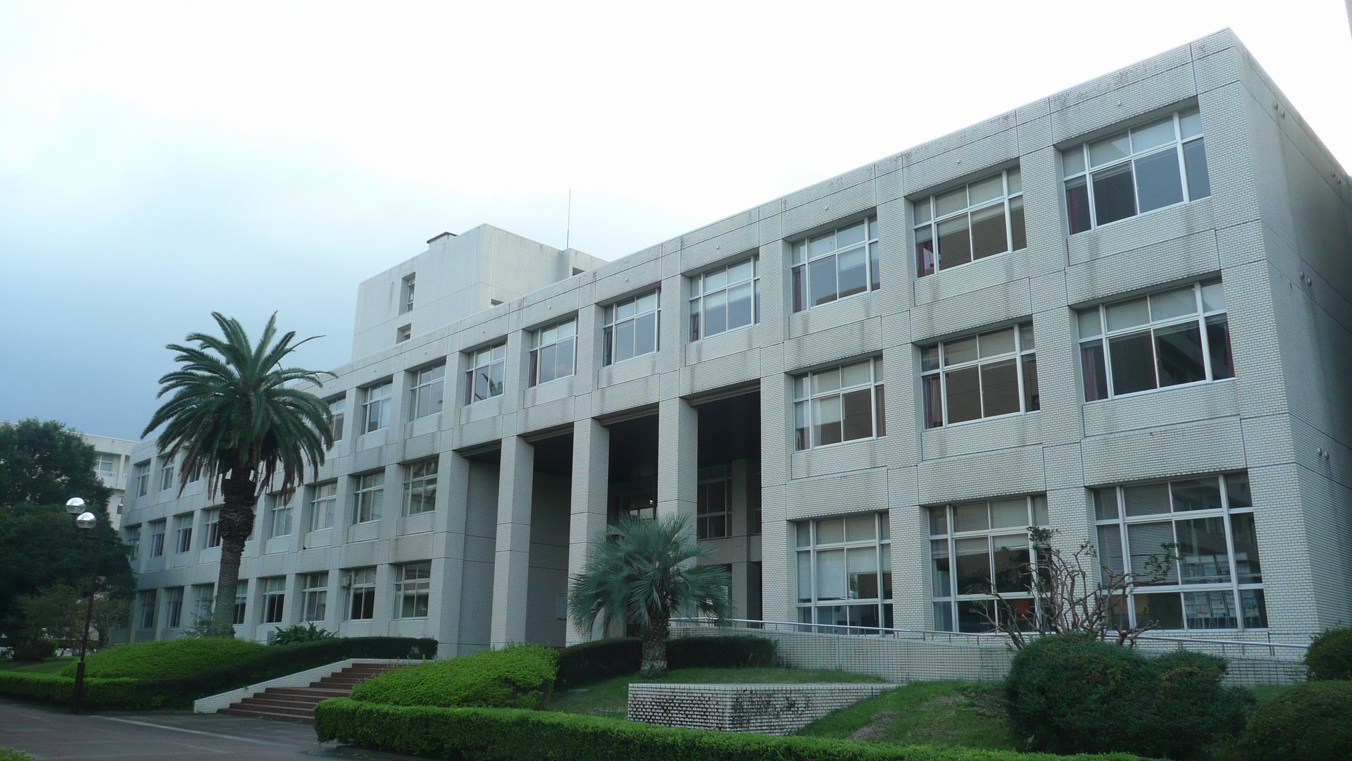 University of Miyazaki - Faculty of Agriculture.